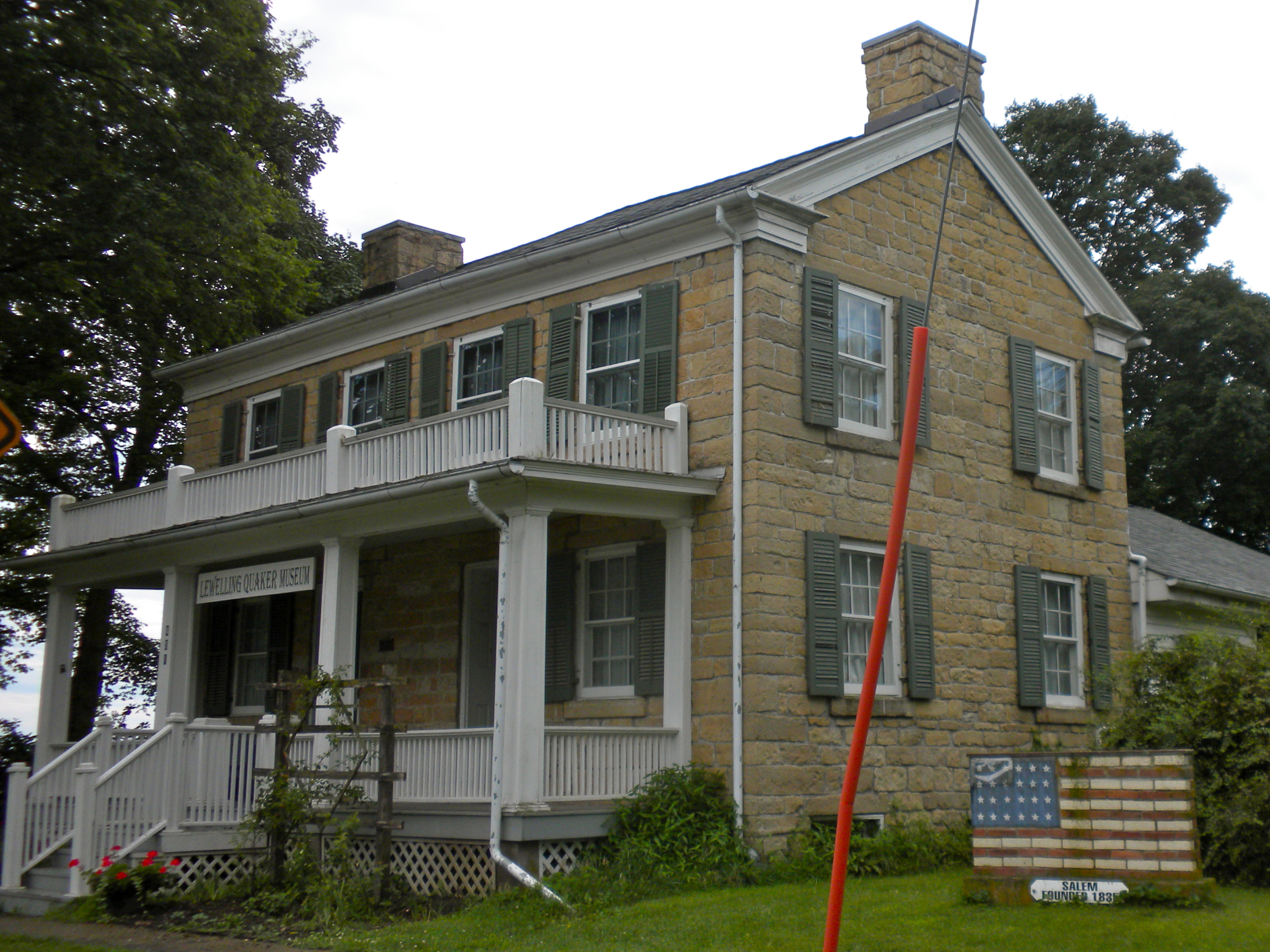 Henderson Lewelling House on the NRHP since June 21, 1982. On W. Main St., Salem, Iowa (Salem is a very small town and it's not clear that they have street numbers). Built 1840's, used in the Underground Railroad, related to Gov. Lewelling of Kansas (was he born there or was he a nephew?) Flag is built from bricks